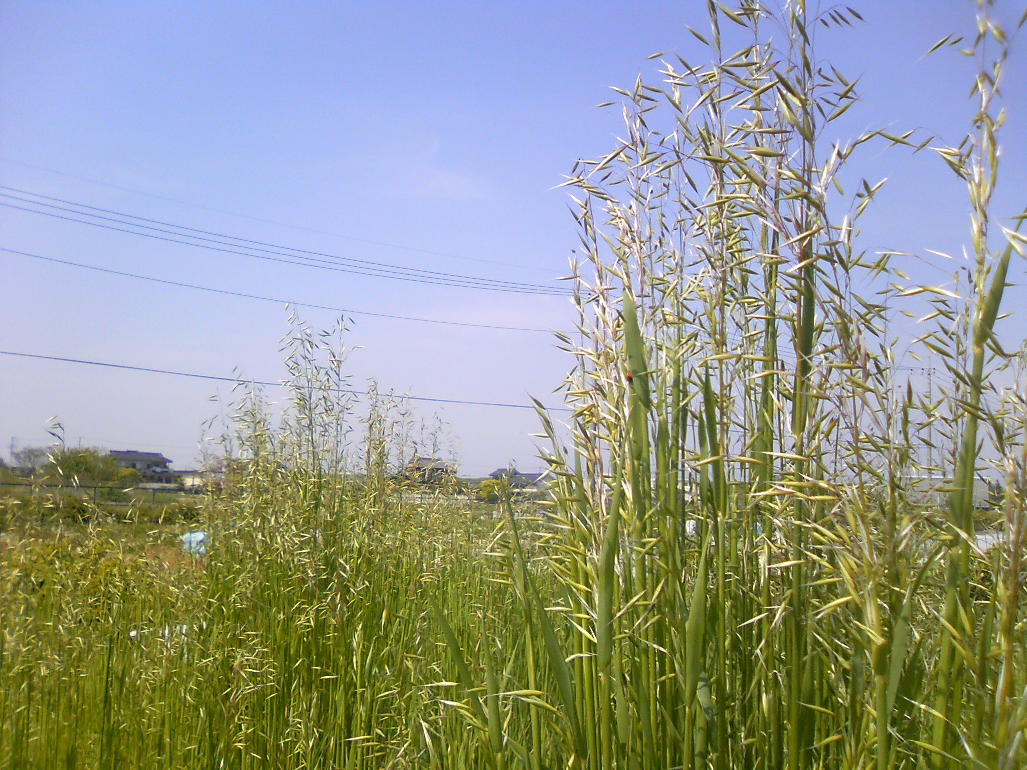 Oats (Avena sativa) in Saitama, Japan.